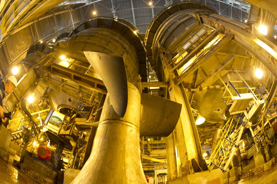 A mill at one of Uralkali's processing plants in Berezniki, Russia